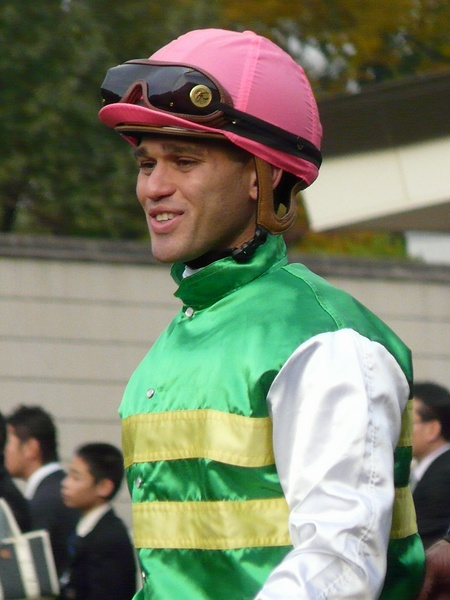 Javier-Castellano20101114